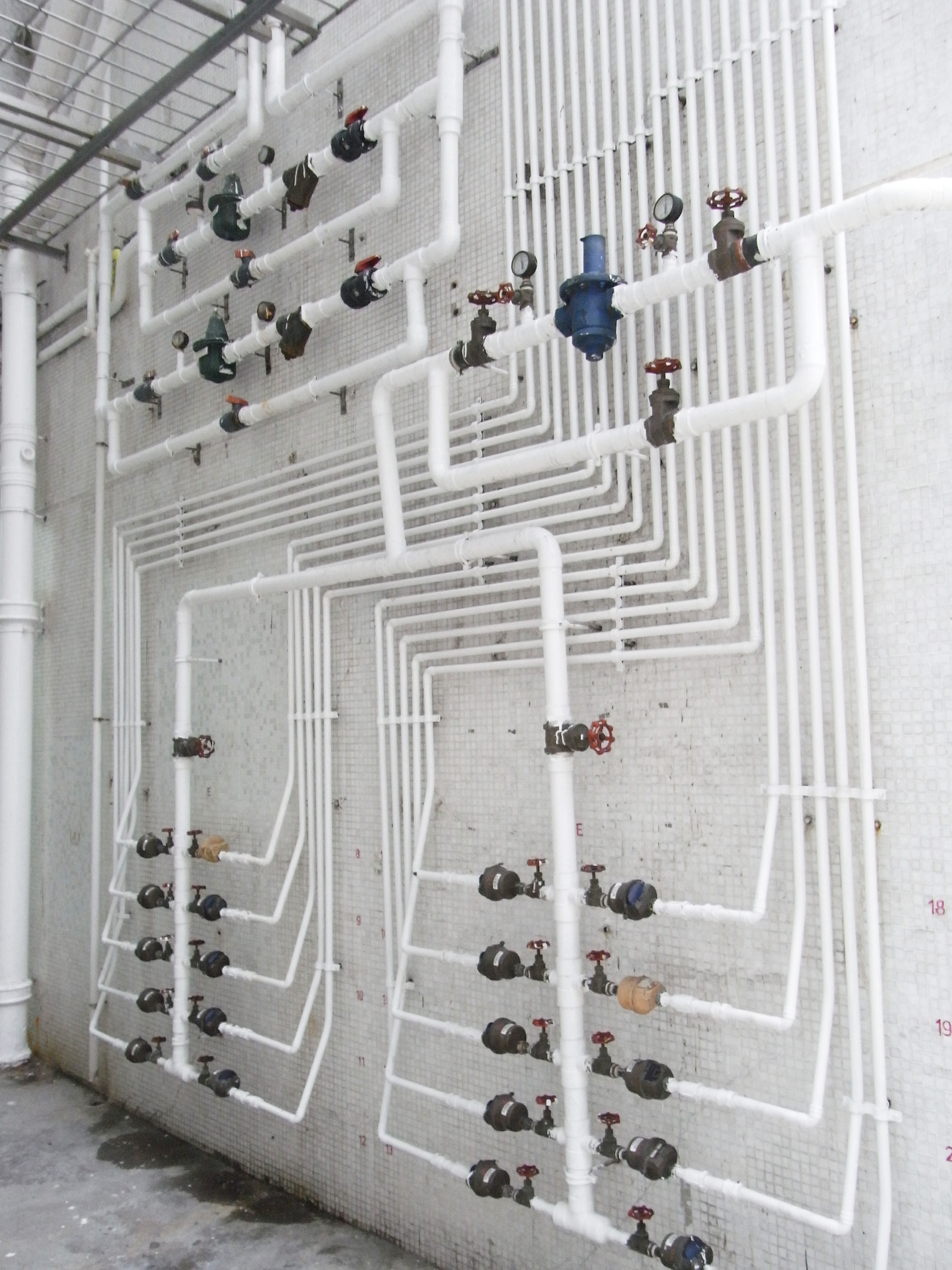 Cold water meters and copper pipe network.